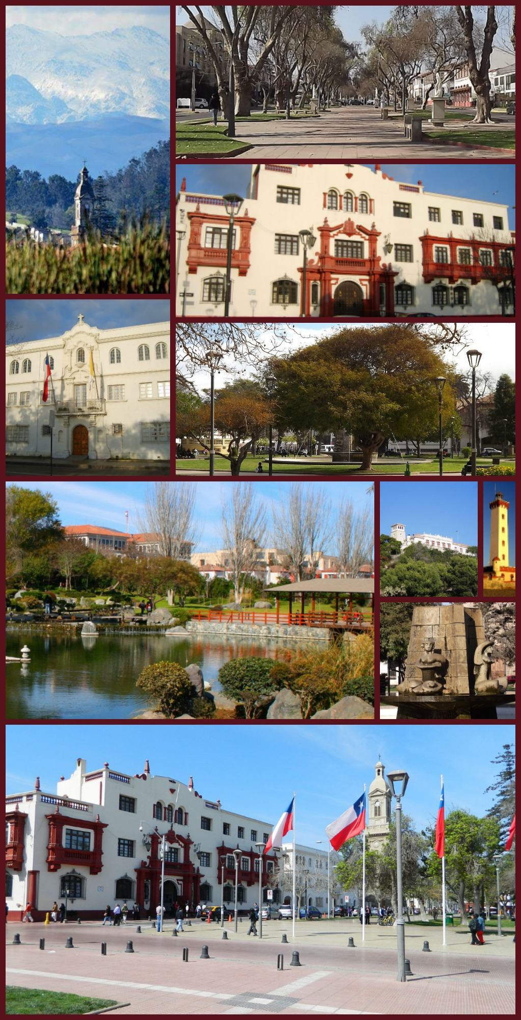 Montage of La Serena, Coquimbo Region, Republic of Chile.